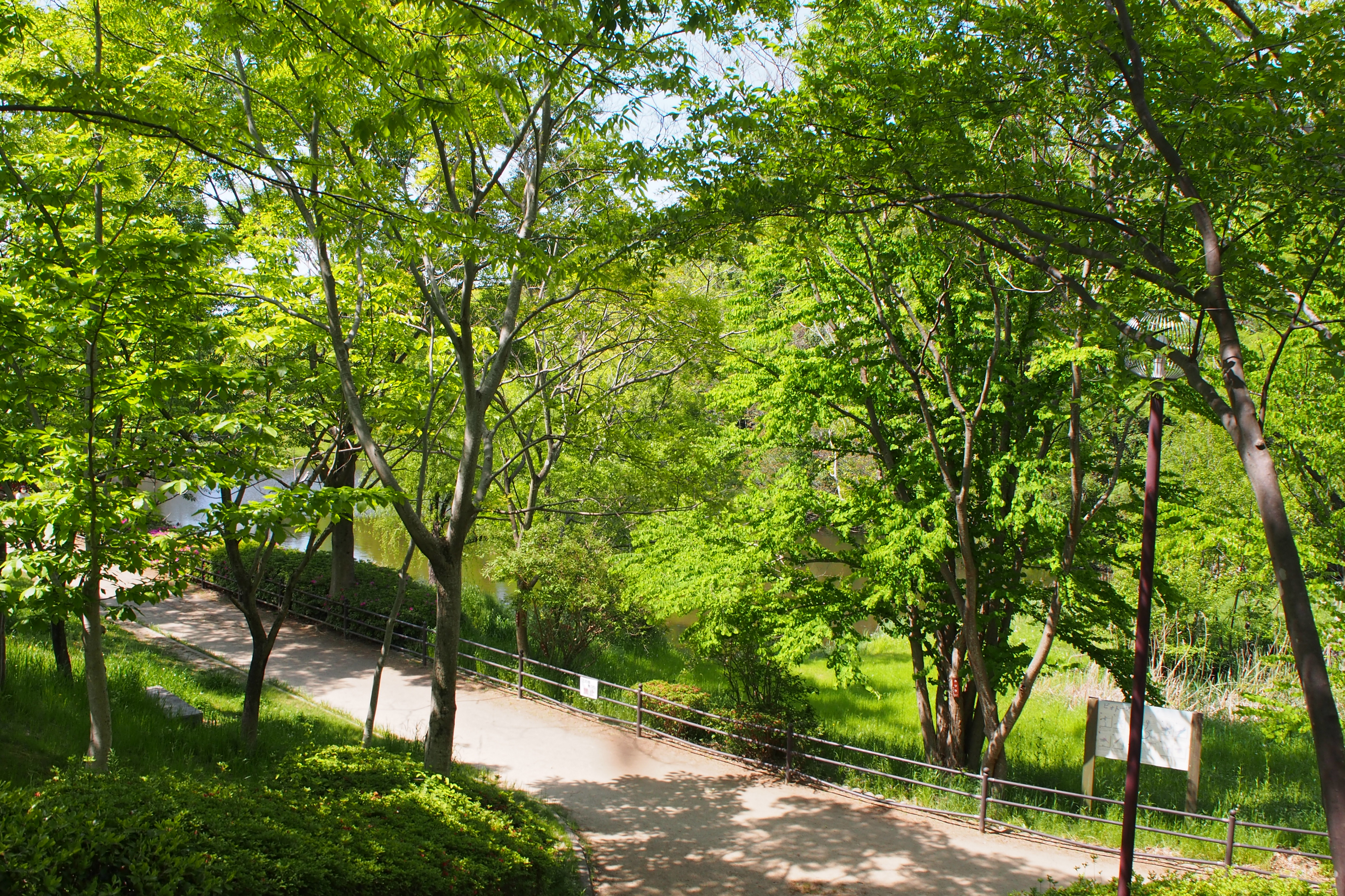 Kaminoike Park in Takatsuki, Osaka prefecture, Japan.